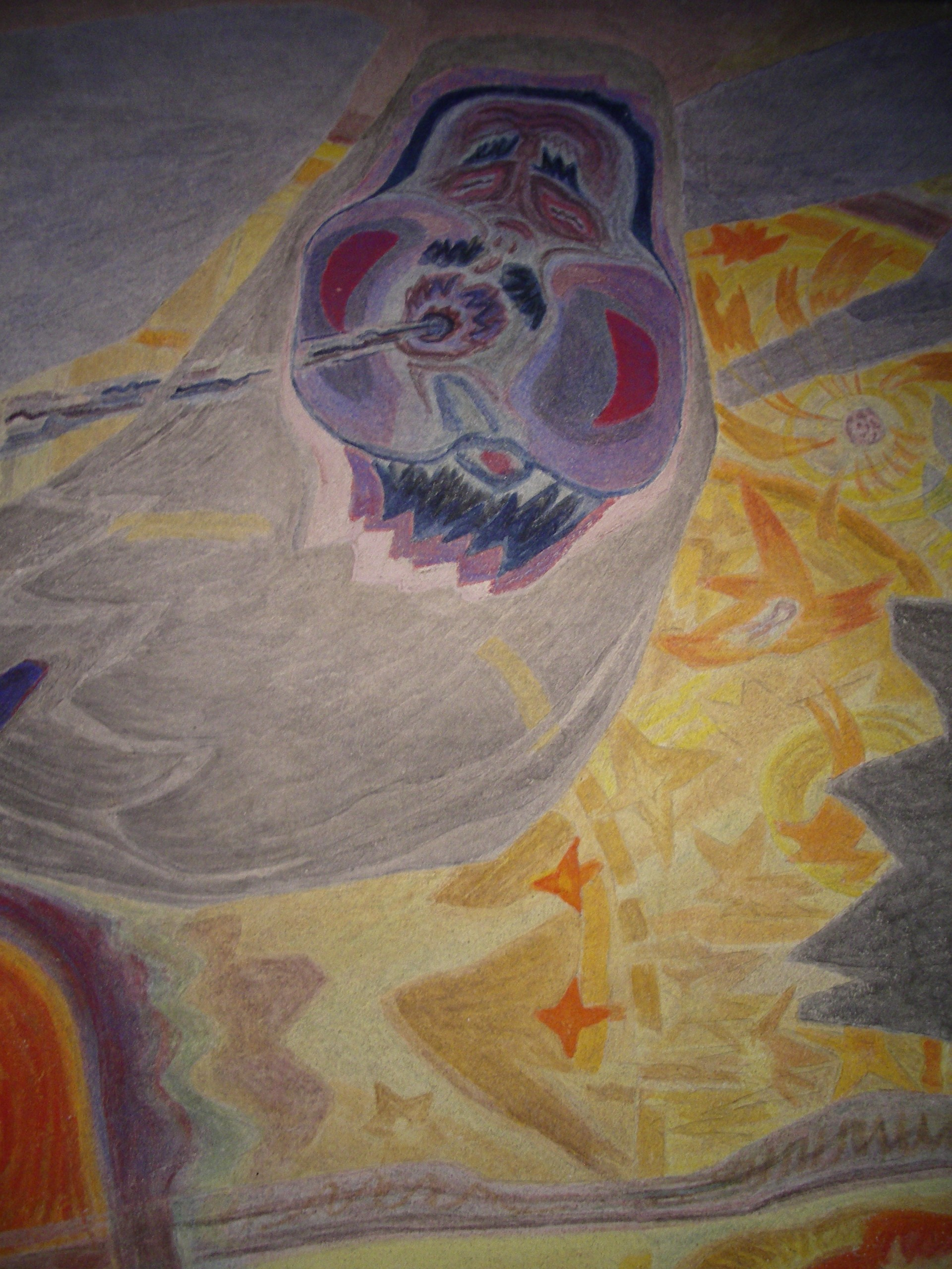 The sun in Vera Nilsson´s The winds""